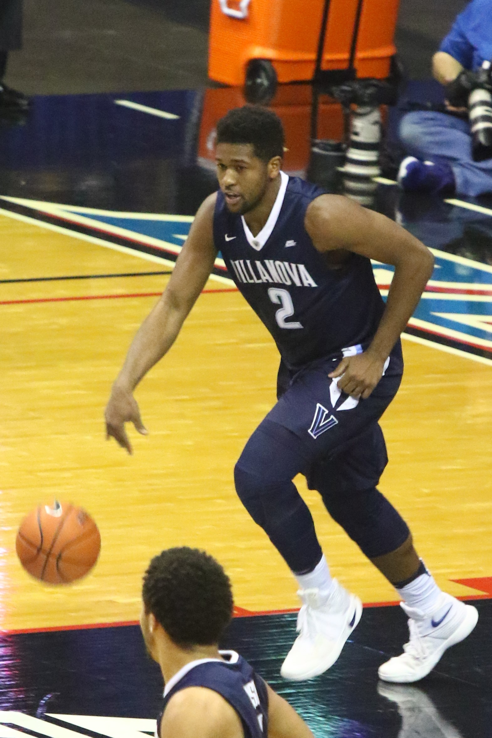 Kris Jenkins for the w:2016–17 Villanova Wildcats men's basketball team at Allstate Arena